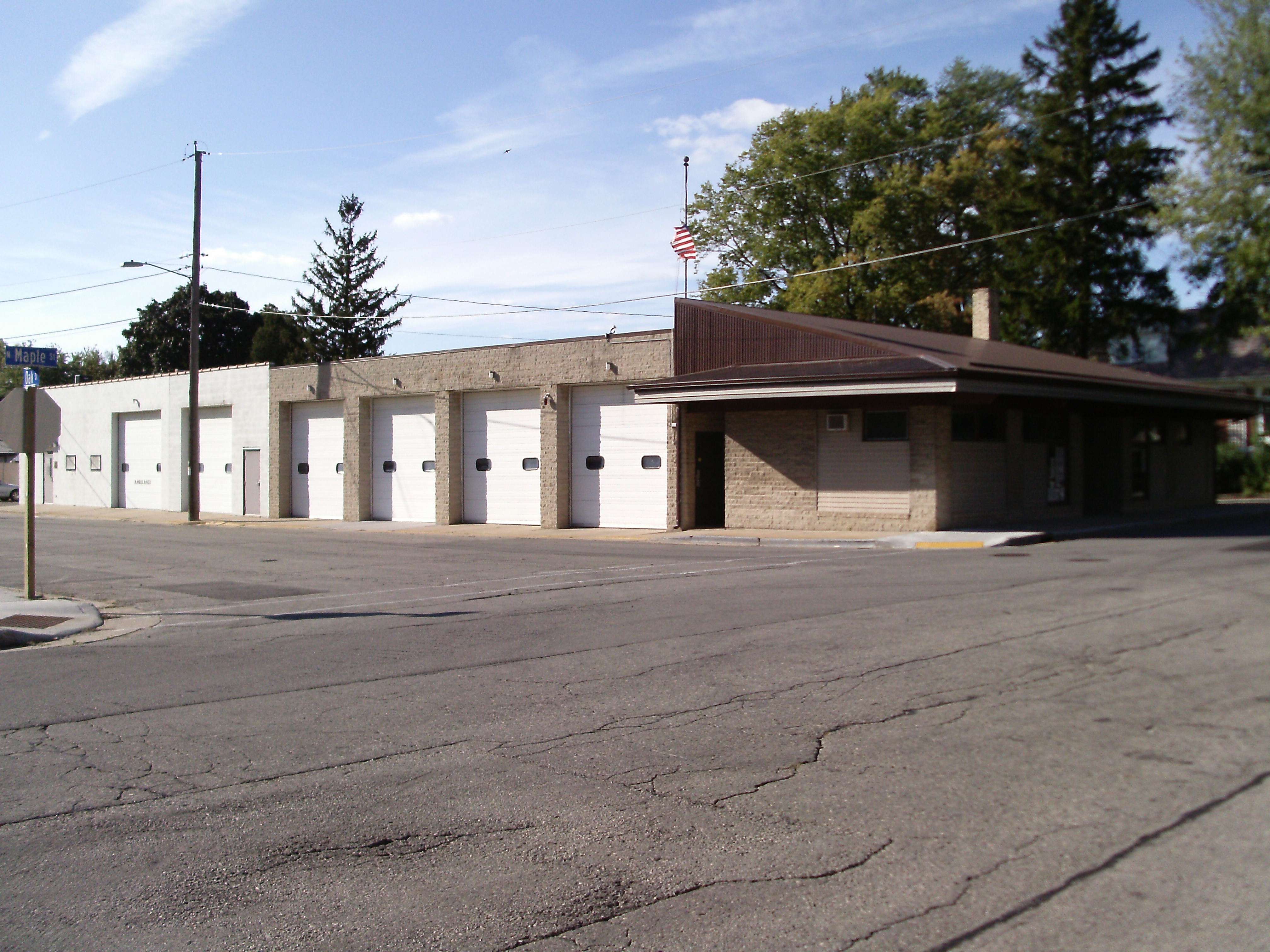 Black Creek, Wisconsin Police Department and Village Hall